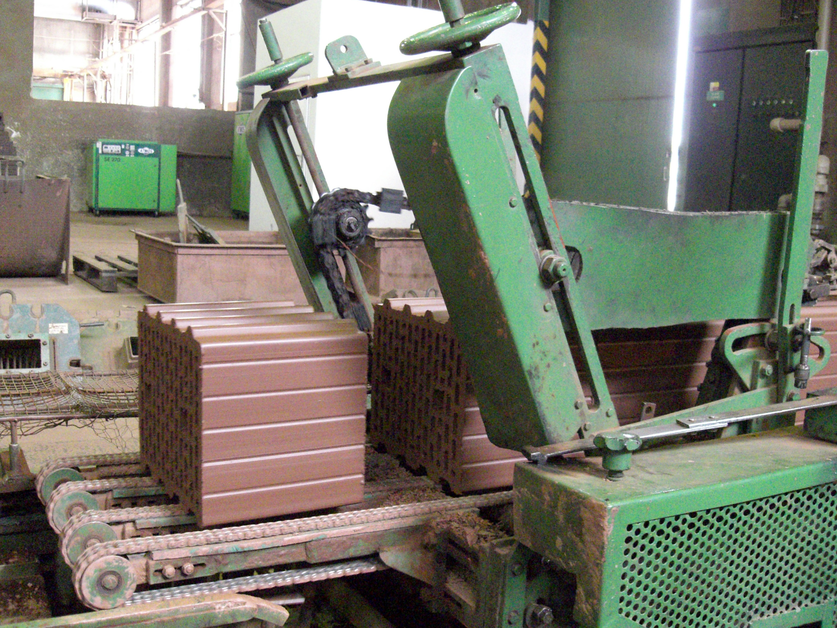 Brickyard in Kryry village, Czech Republic. Cutting.